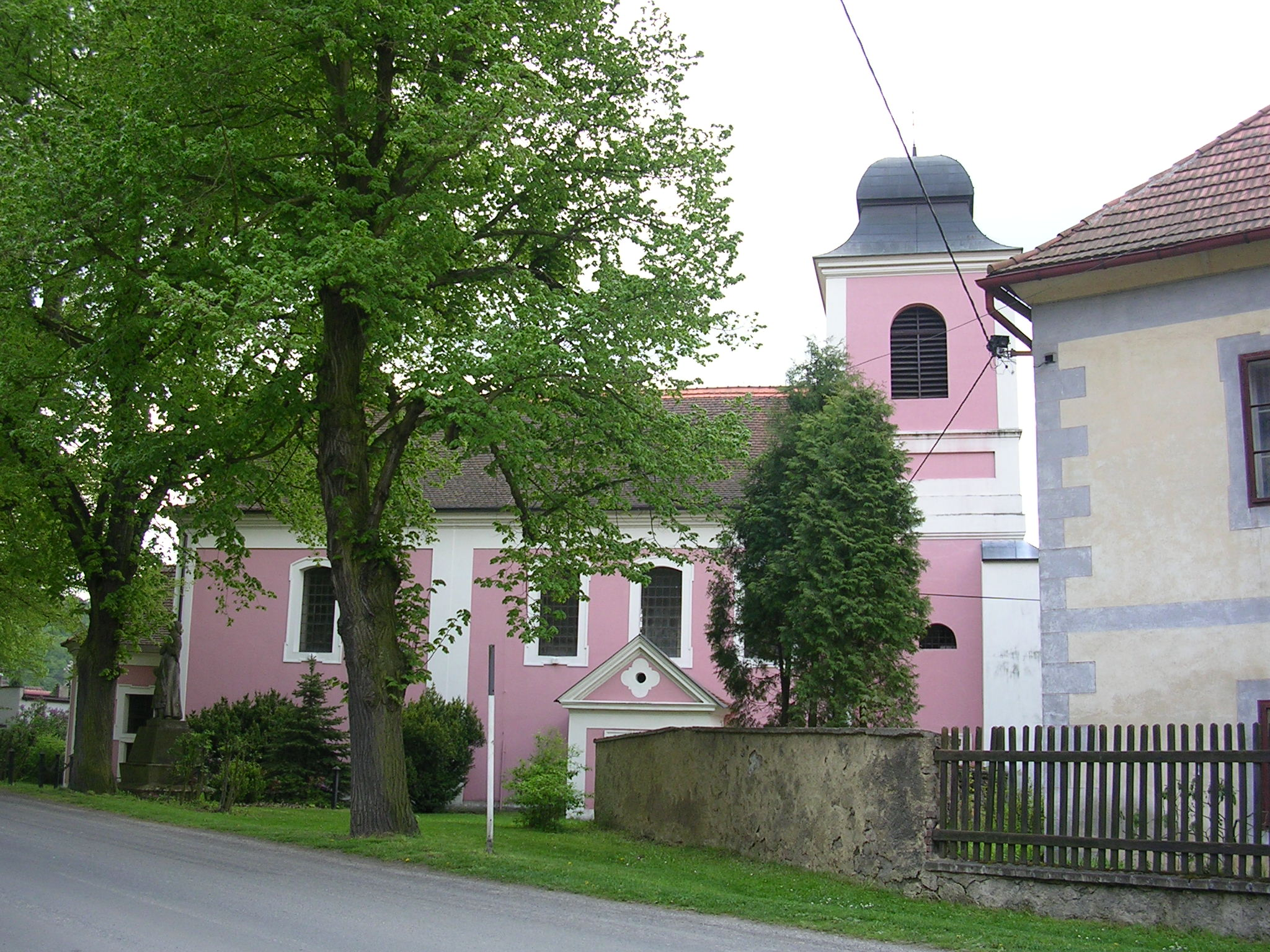 Zbečno, the Czech Republic. St. Martin Churche.